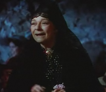 Cropped screenshot of Alla Nazimova from the trailer for the film Blood and Sand.